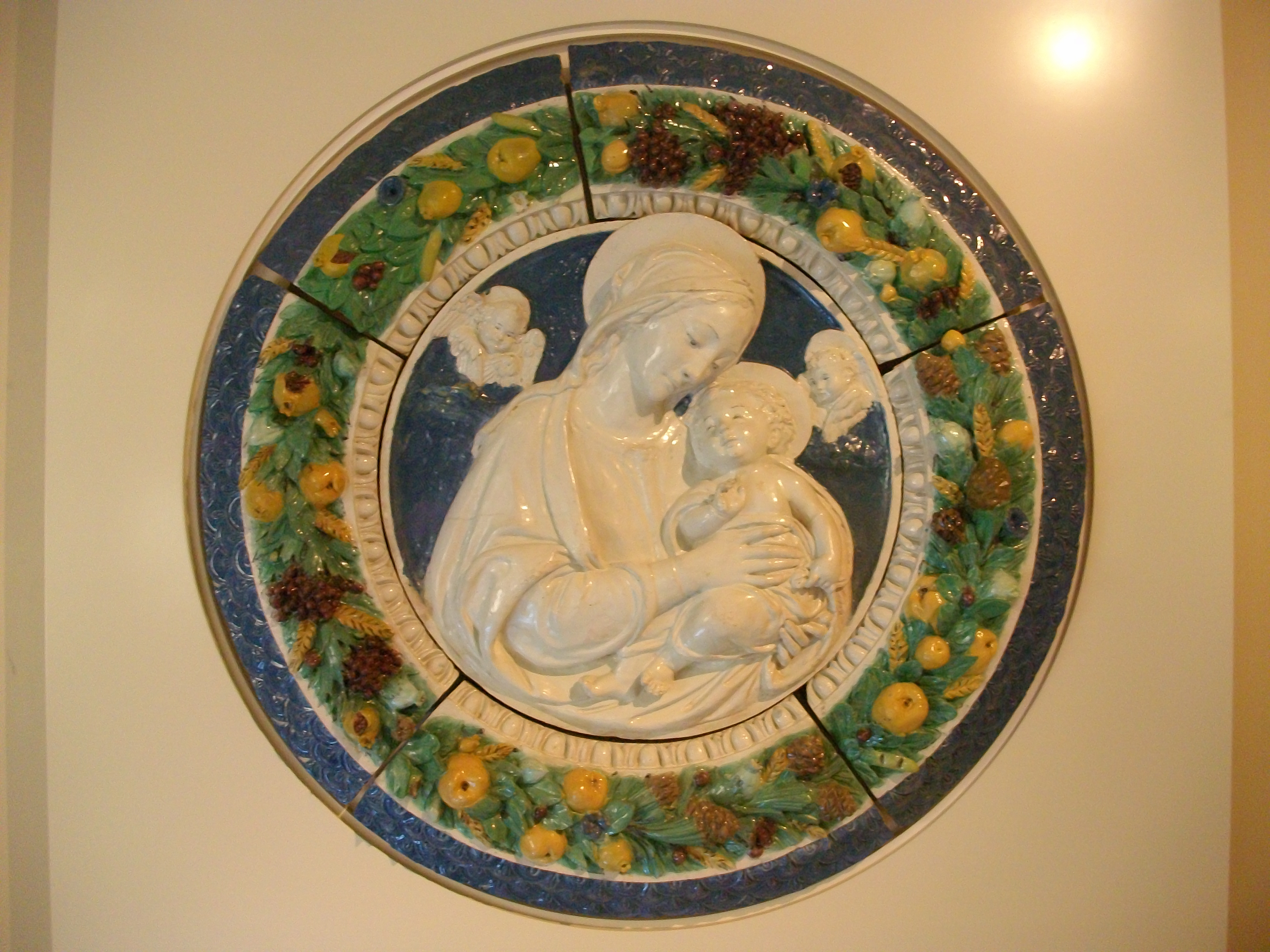 Tondo attributed to the workshop of Buglioni.